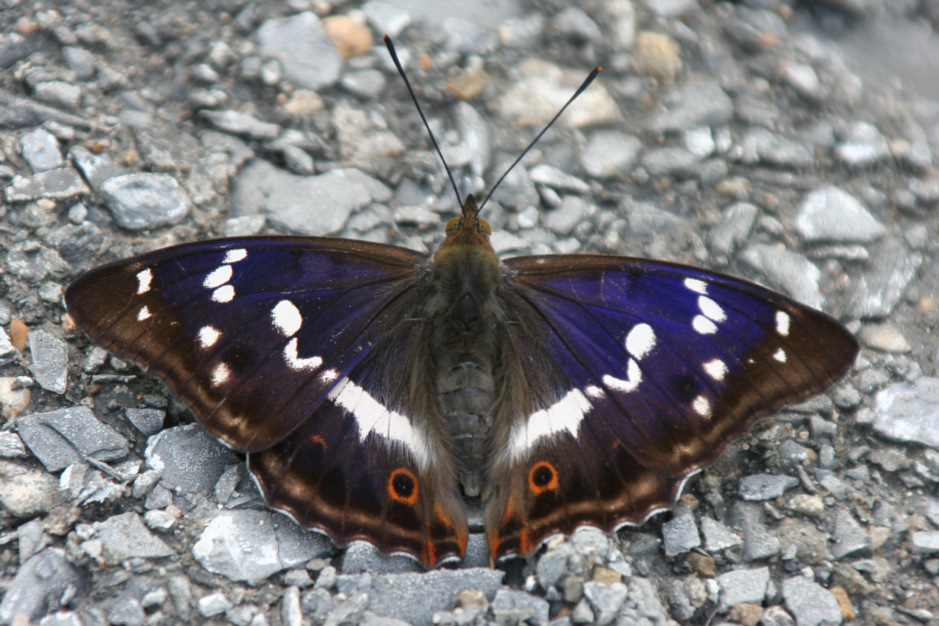 A male Purple Emperor (Apatura iris), photographed in Weinsberg